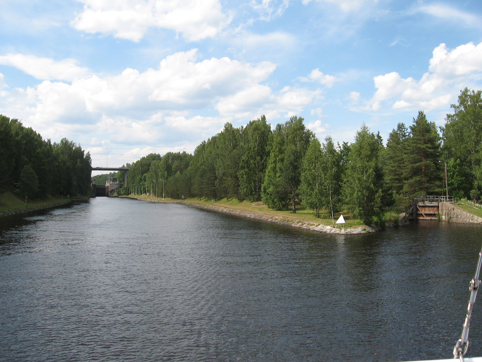 The lock of Mälkiä as seen from south-east side. Old canal on right side, current line (and the lock) on the left.